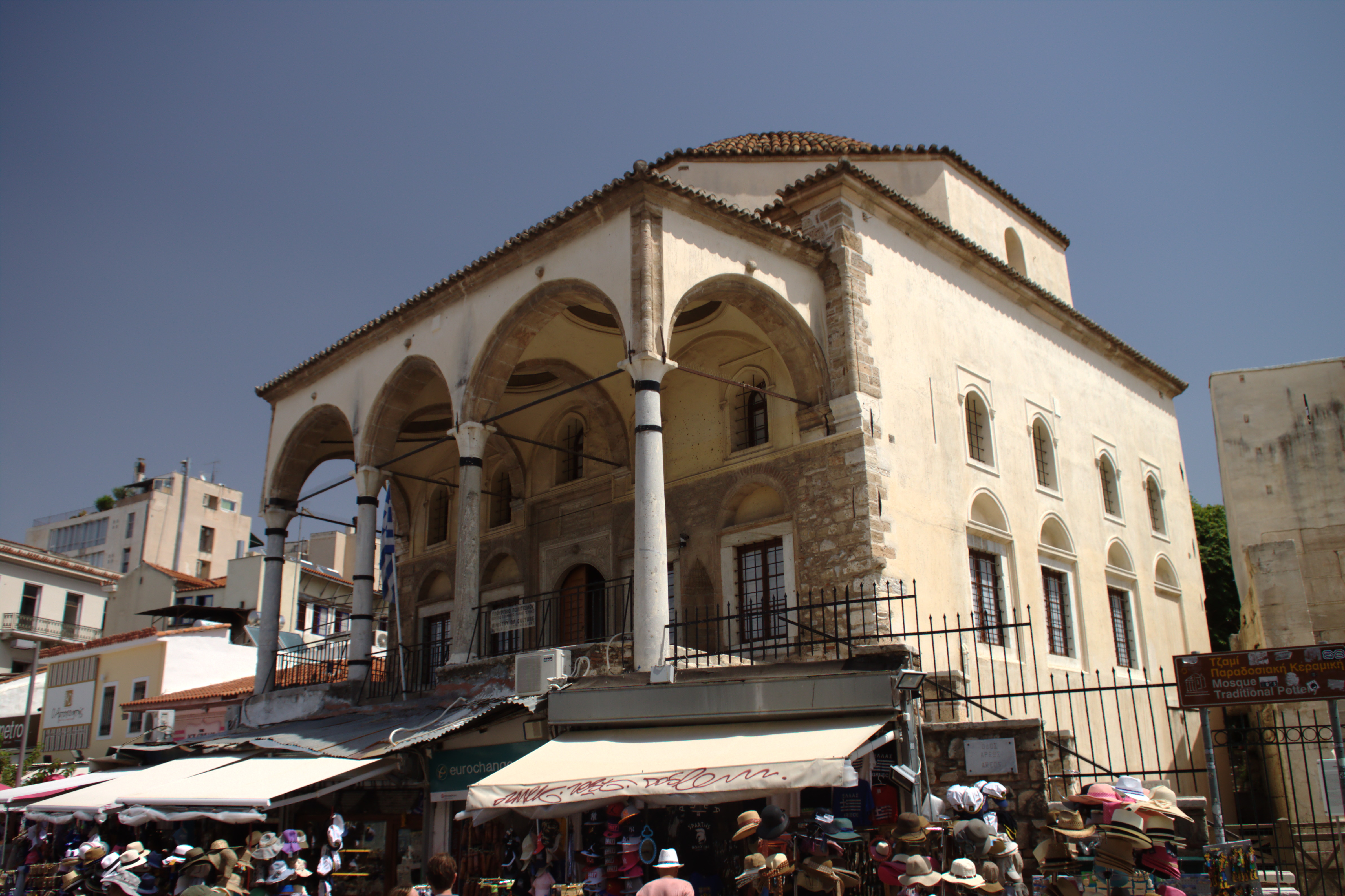 Monastiriki Square in Athens, Greece